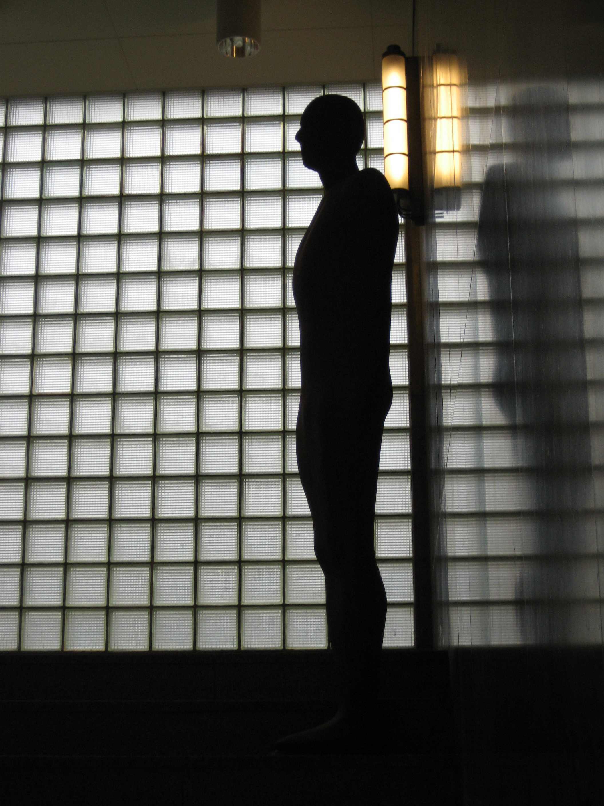 In the staircase of Stavanger Justice Hall